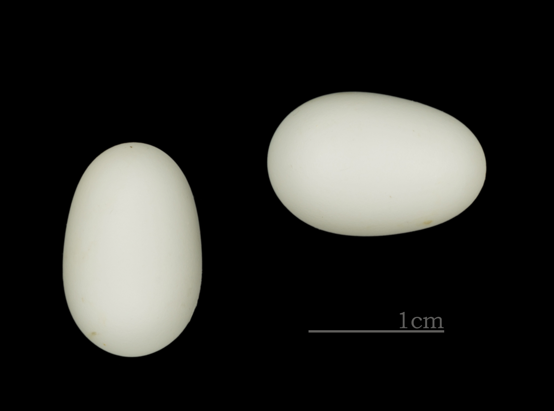 Egg of Glossy Swiftlet. Collection of René de Naurois /Jacques Perrin de Brichambaut.